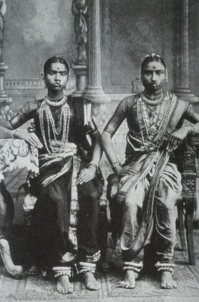 A photograph of two Devadasis taken in 1920s Chennai in India.